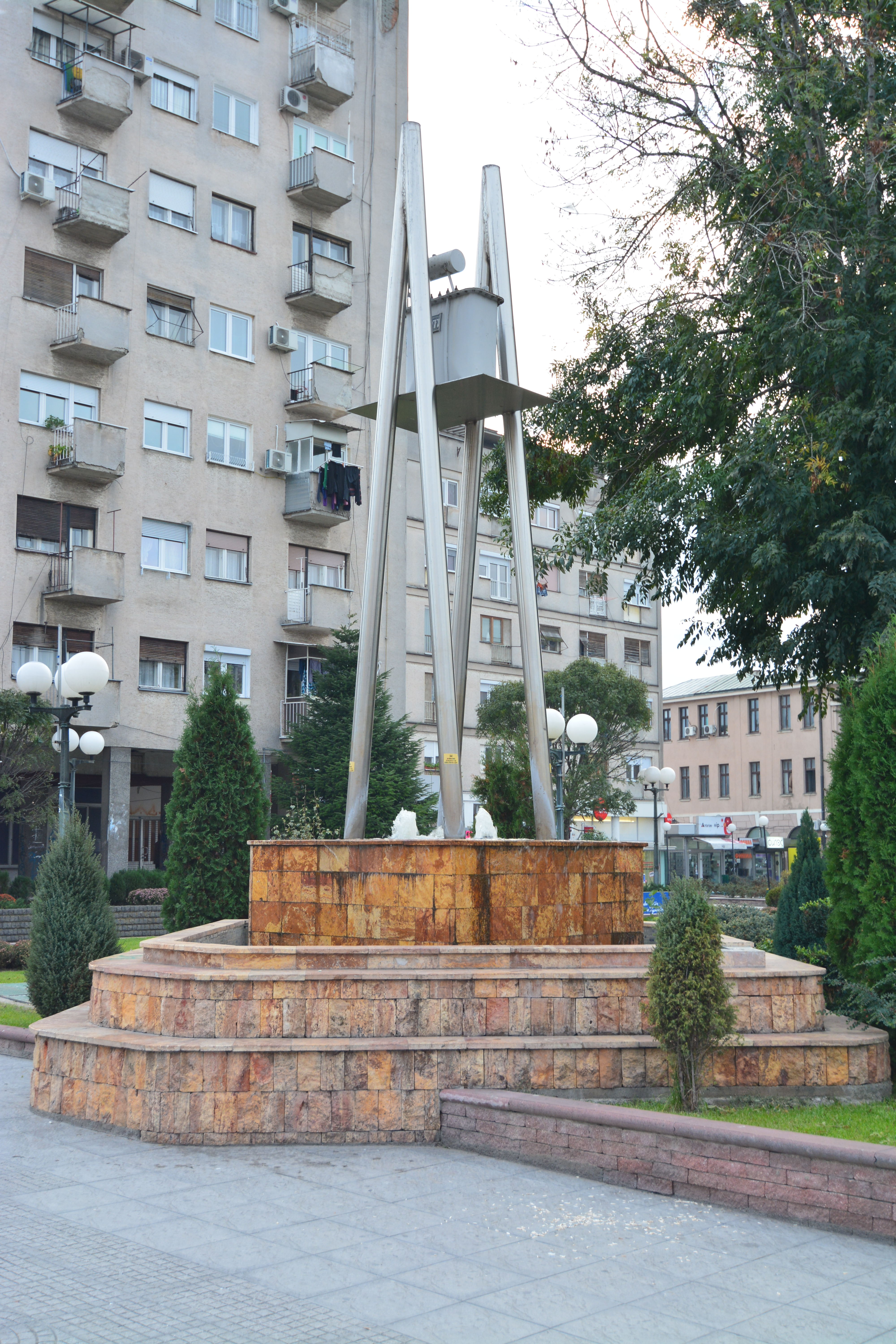 In Kumanovo, "Four Poles"